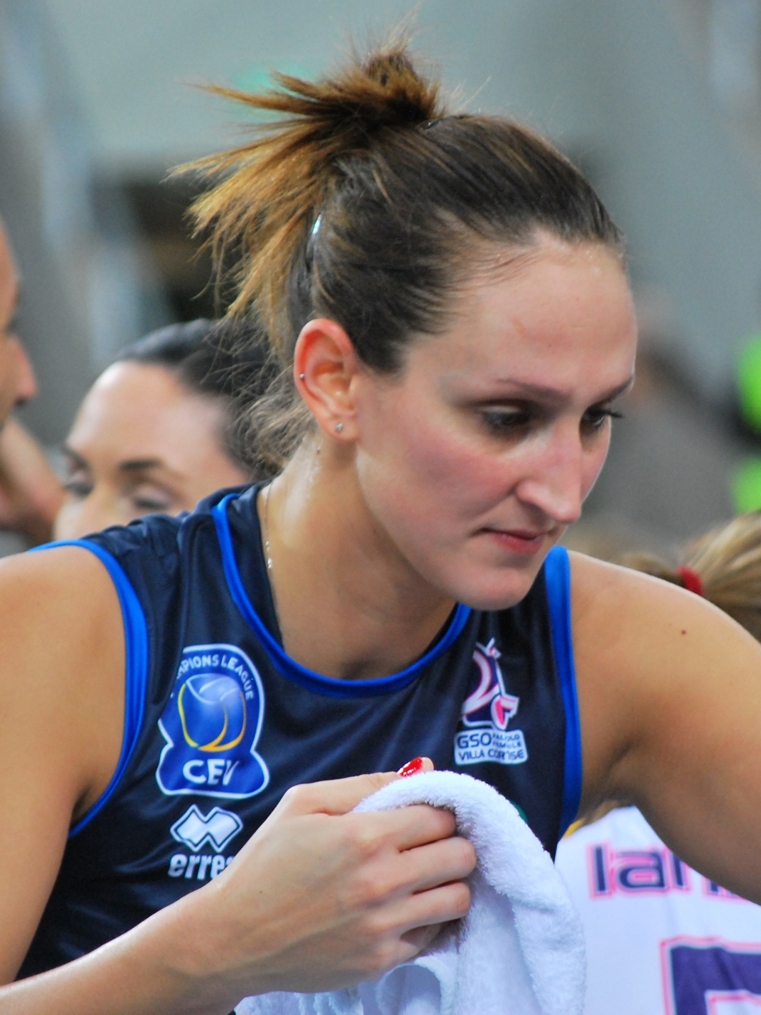 Raffaella Calloni, italian volleyball player